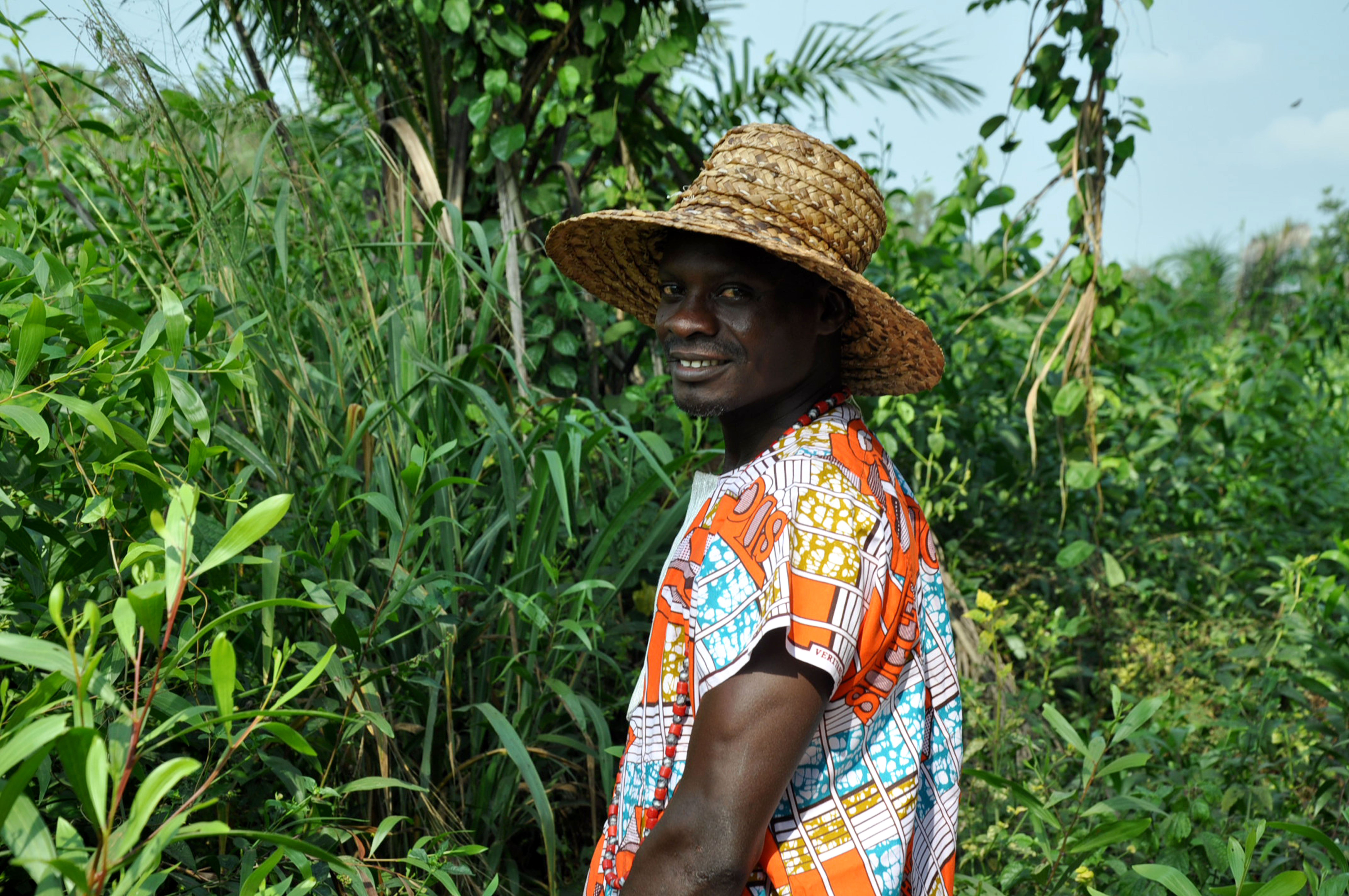 green production in africa in 2030 This is an image with the theme "Africa on the Move or Transport" from: Benin